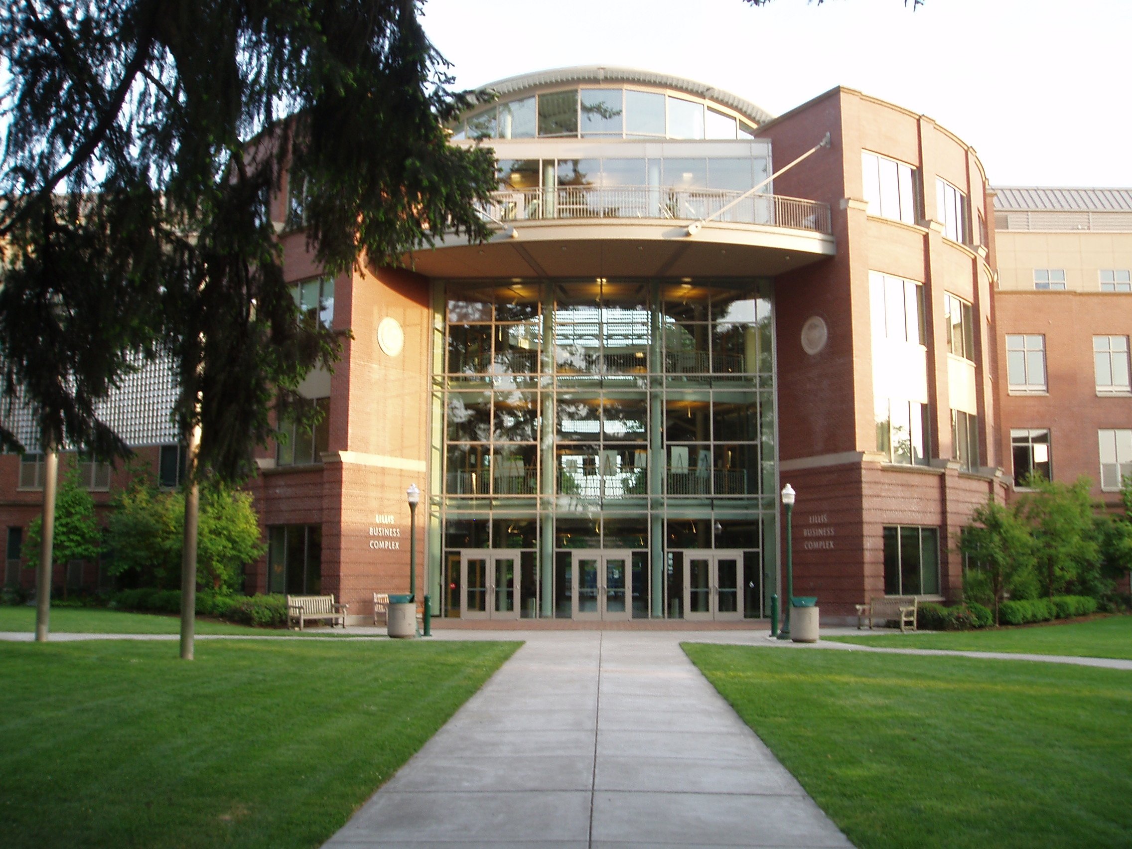 View of the Lillis Business Complex from the north, on the University of Oregon campus in Eugene, Oregon.